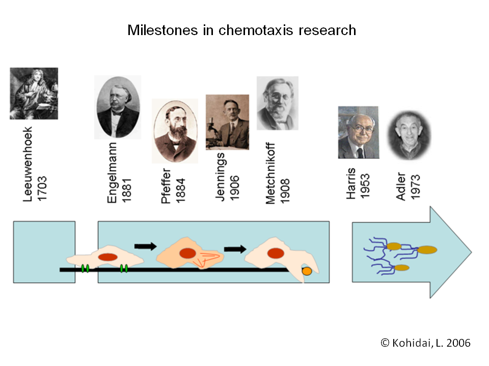 milestones in chemotaxis research